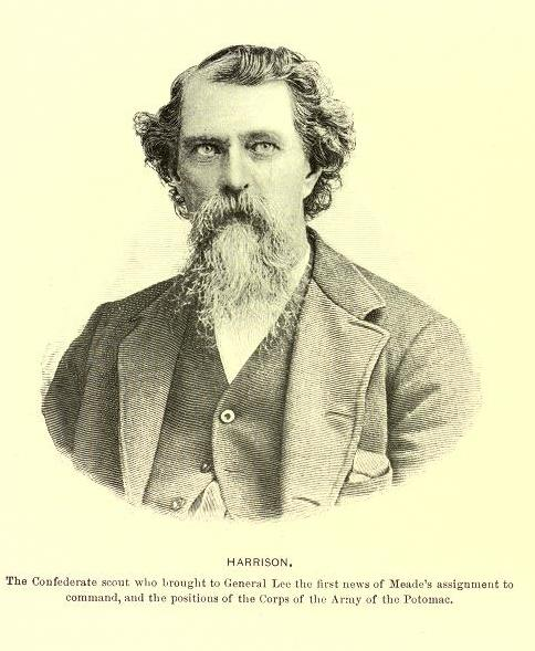 Henry Thomas Harrison (1832–1923) in later years, appearing in From Manassas to Appomattox by James Longstreet (1896), p. 346.